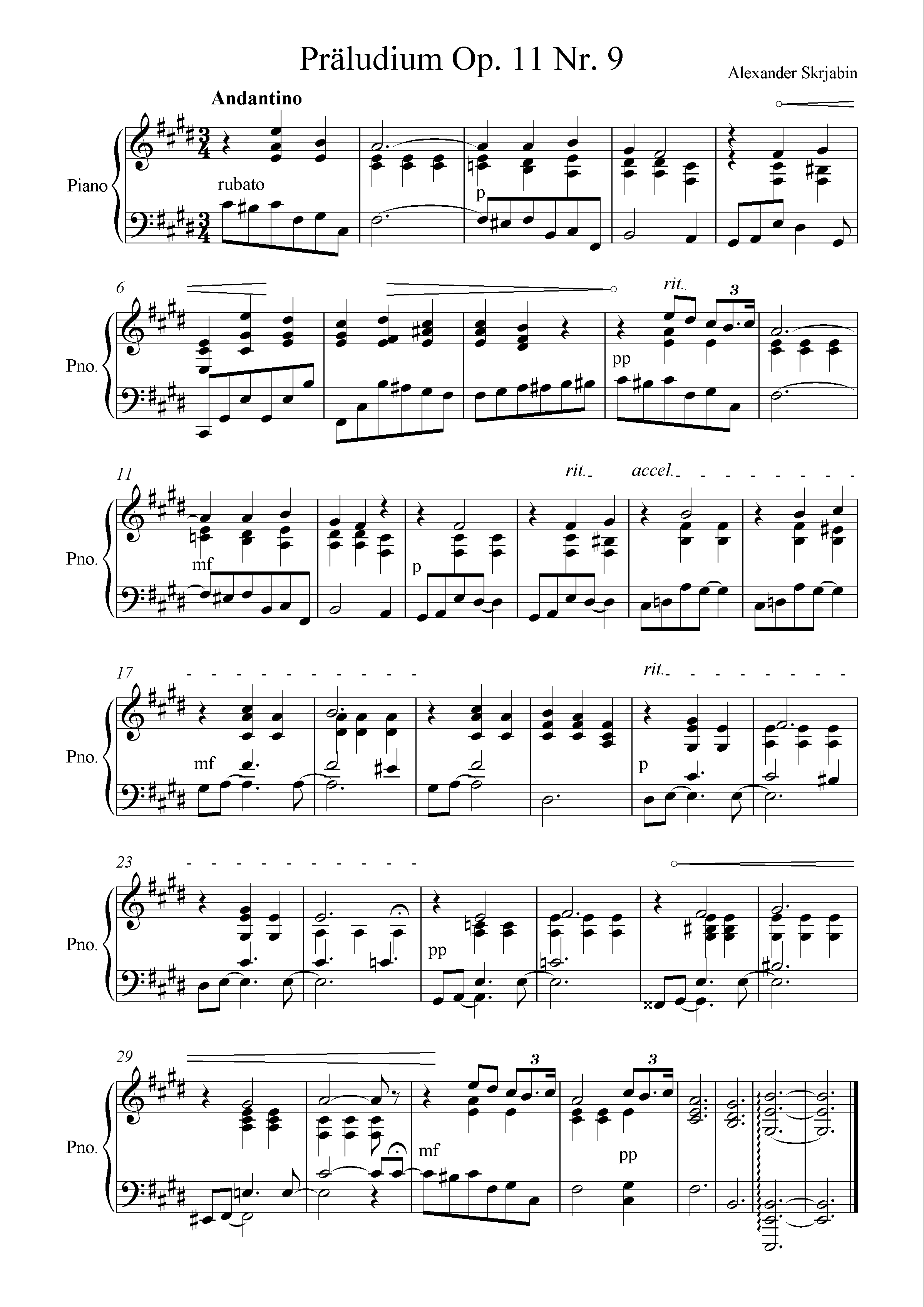 Skrjabin_11_9.